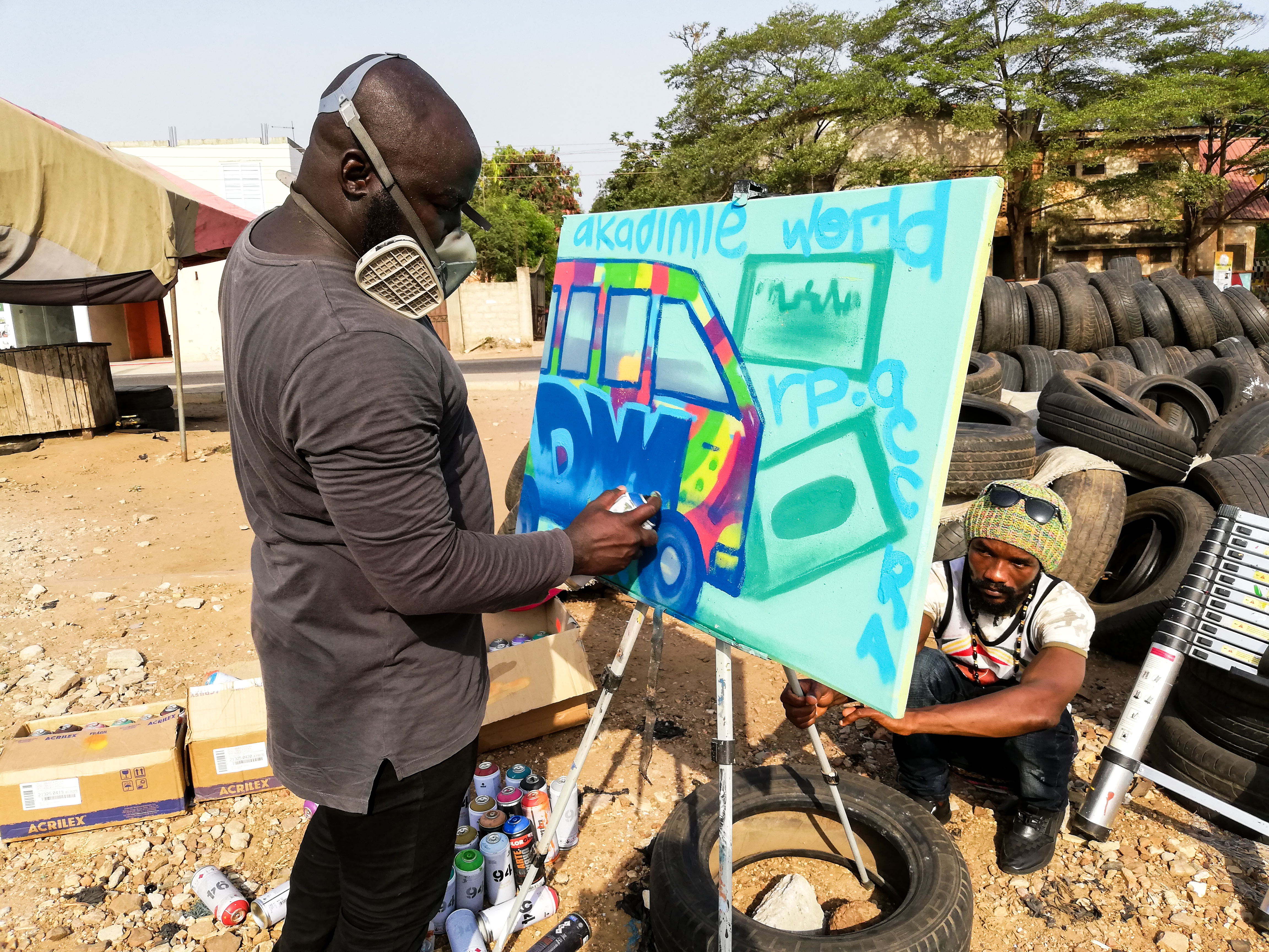 Multi-talented and award-winning artist Mohammed Awudu, popularly known as Moh This is an image with the theme "Play" from: Ghana